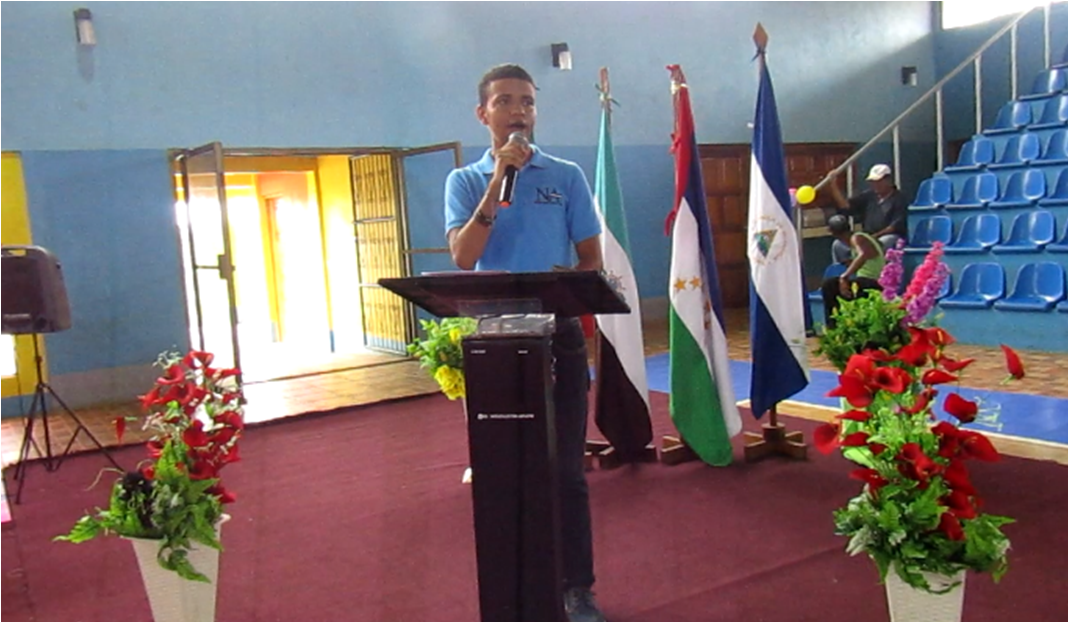 Shayron Towrer, Líder Juvenil Corn Island dando discurso en el día de la Juventud, 2016.